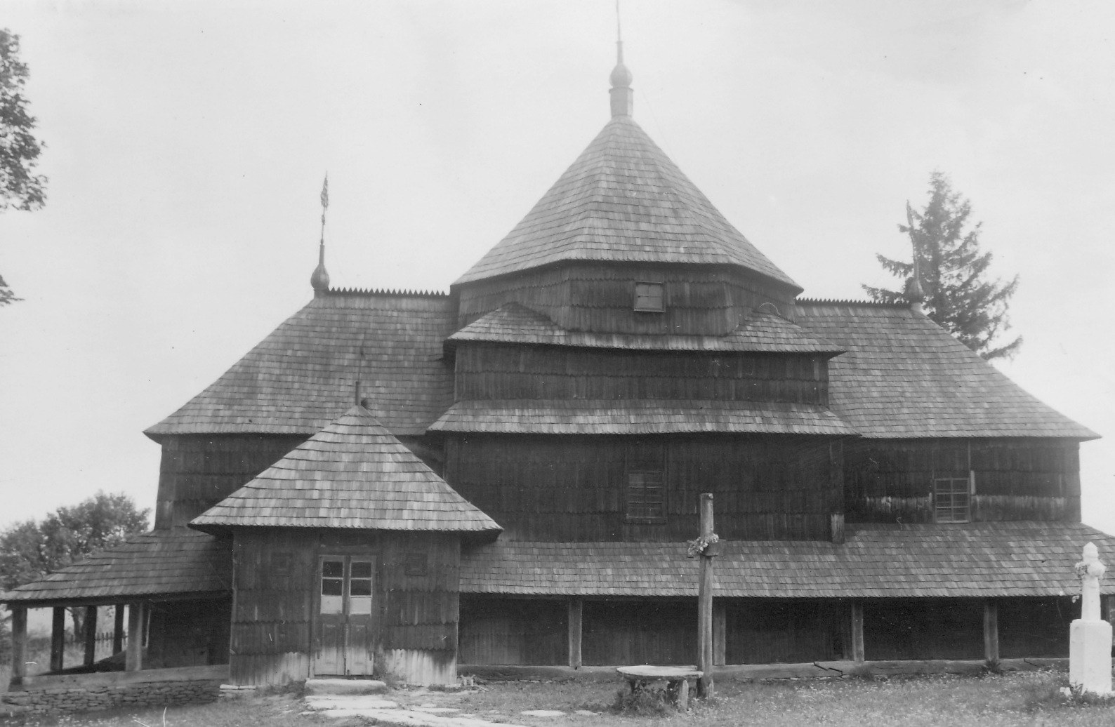 Church in Stăneştii de Sus, Cozmeni, Ukraine (image from the archive of the Metropolitan of Moldavia, 1936, free of copyright)